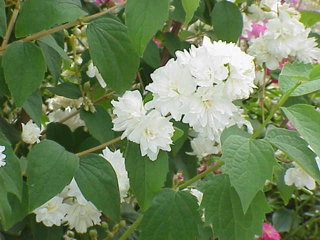 Species: Philadelphus x virginalis Family: Hydrangeaceae Image No. 1